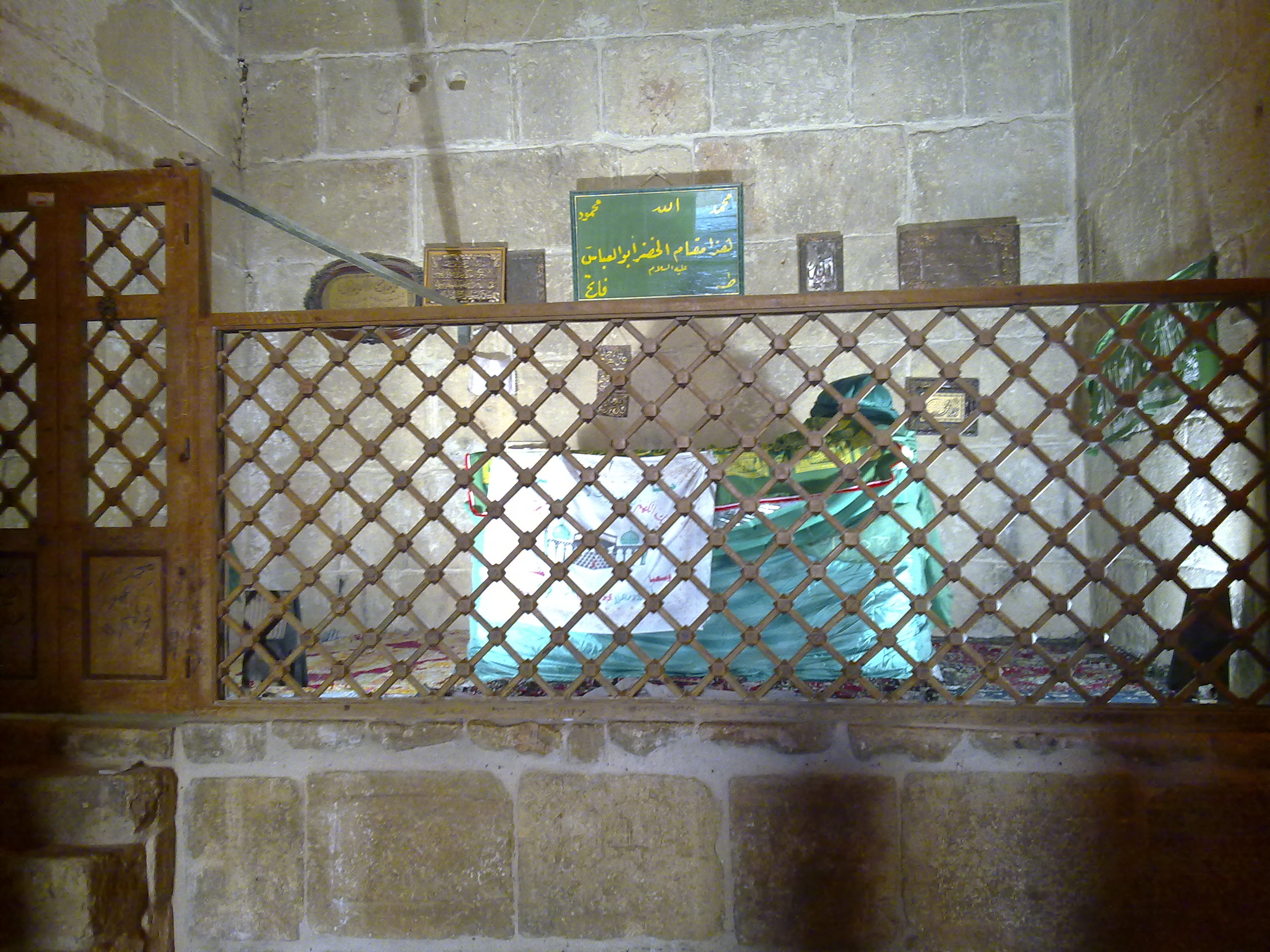 Maqam Khader Abu al-Abbas in the Citadel of Aleppo